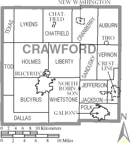 Map of Crawford County, Ohio, United States with township and municipal boundaries